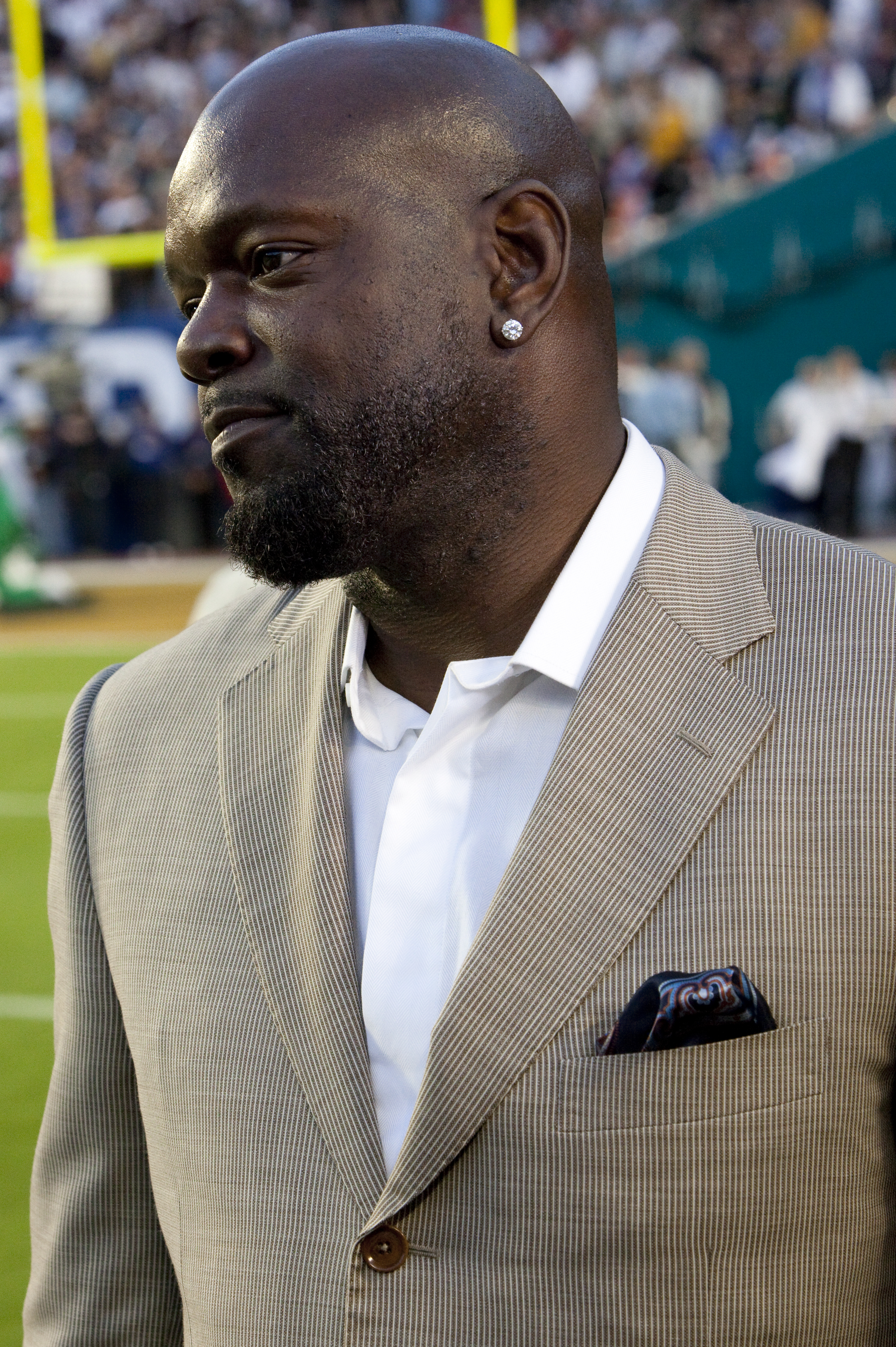 see more at